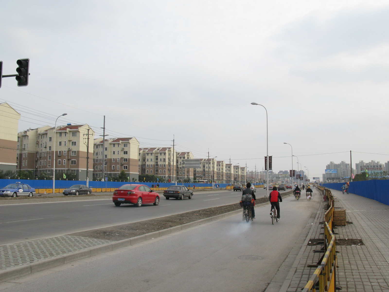 South Yanggao Road, Gaoqing Road